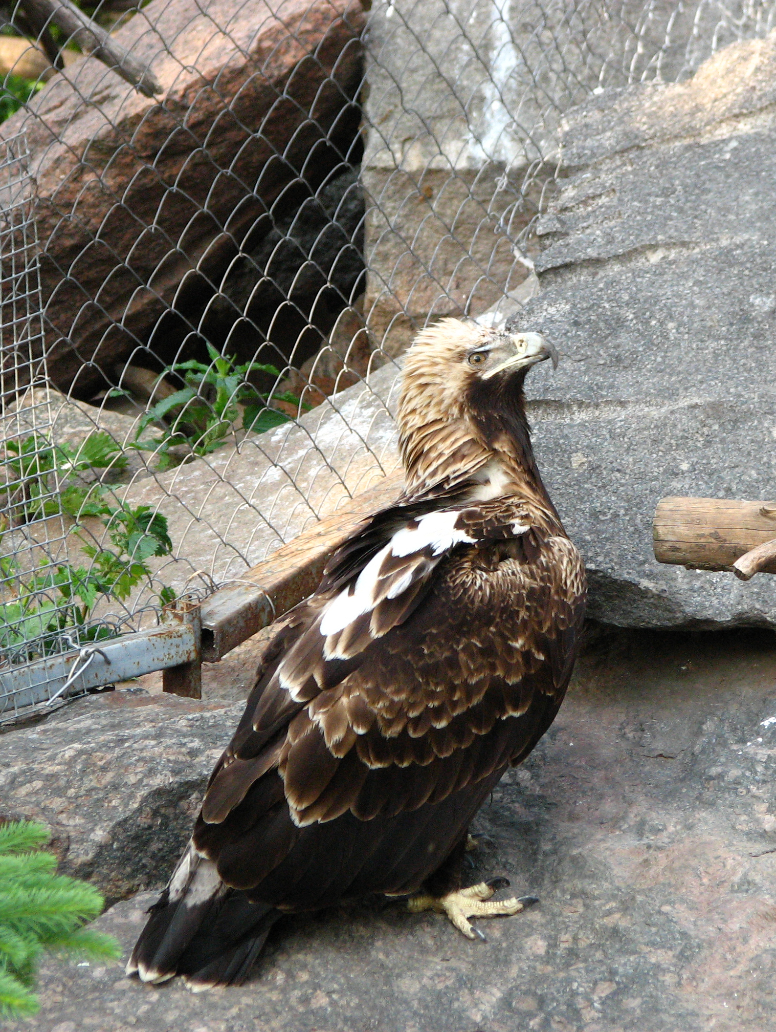 Moscow Zoo. Eastern Imperial Eagle (Aquila heliaca)